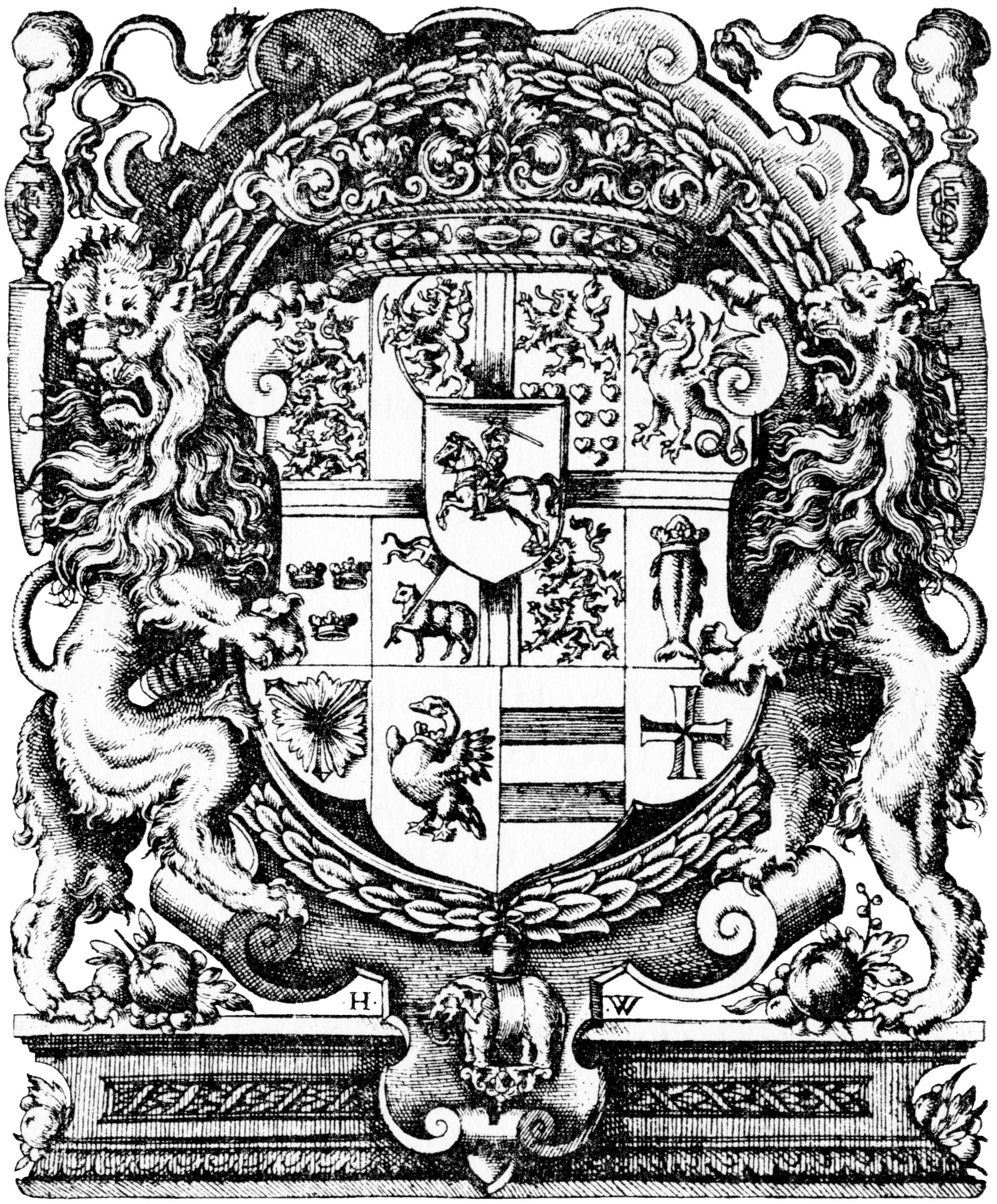 Coat of arms attributed to Frederick II of Denmark and Norway. Engraving by Lauterbach (1592).